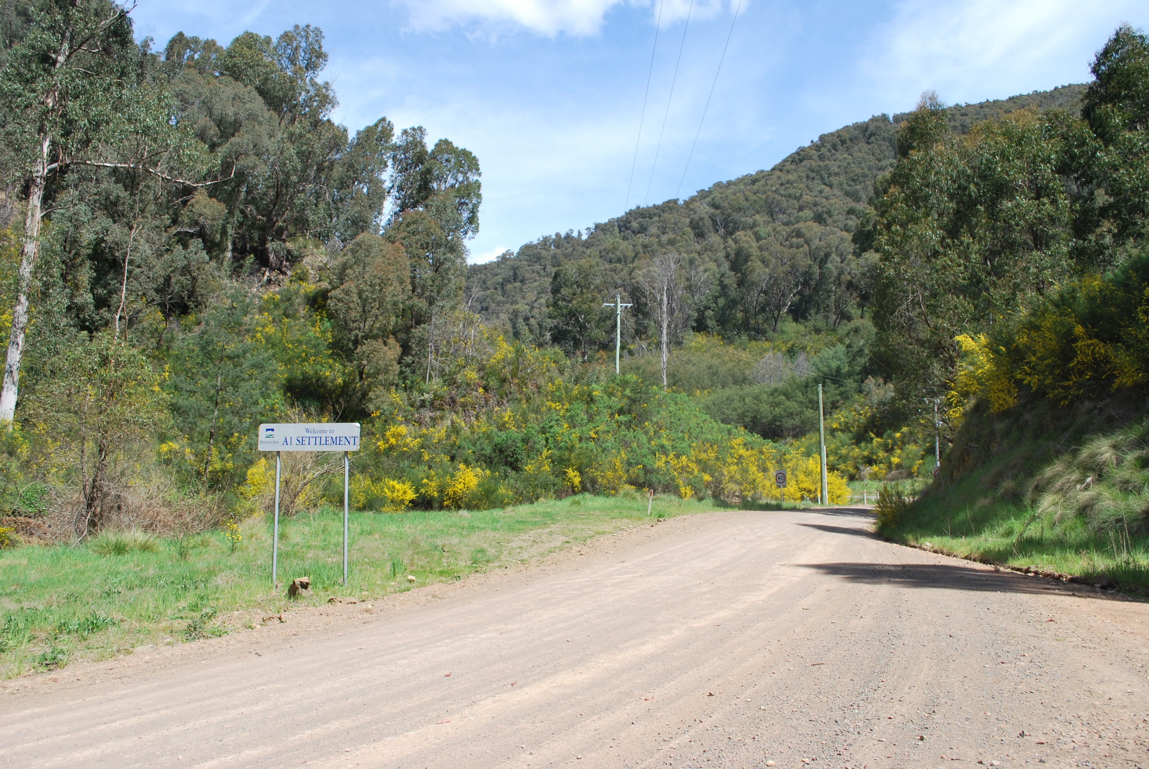 Town entry sign at A1 Mine Settlement, Victoria